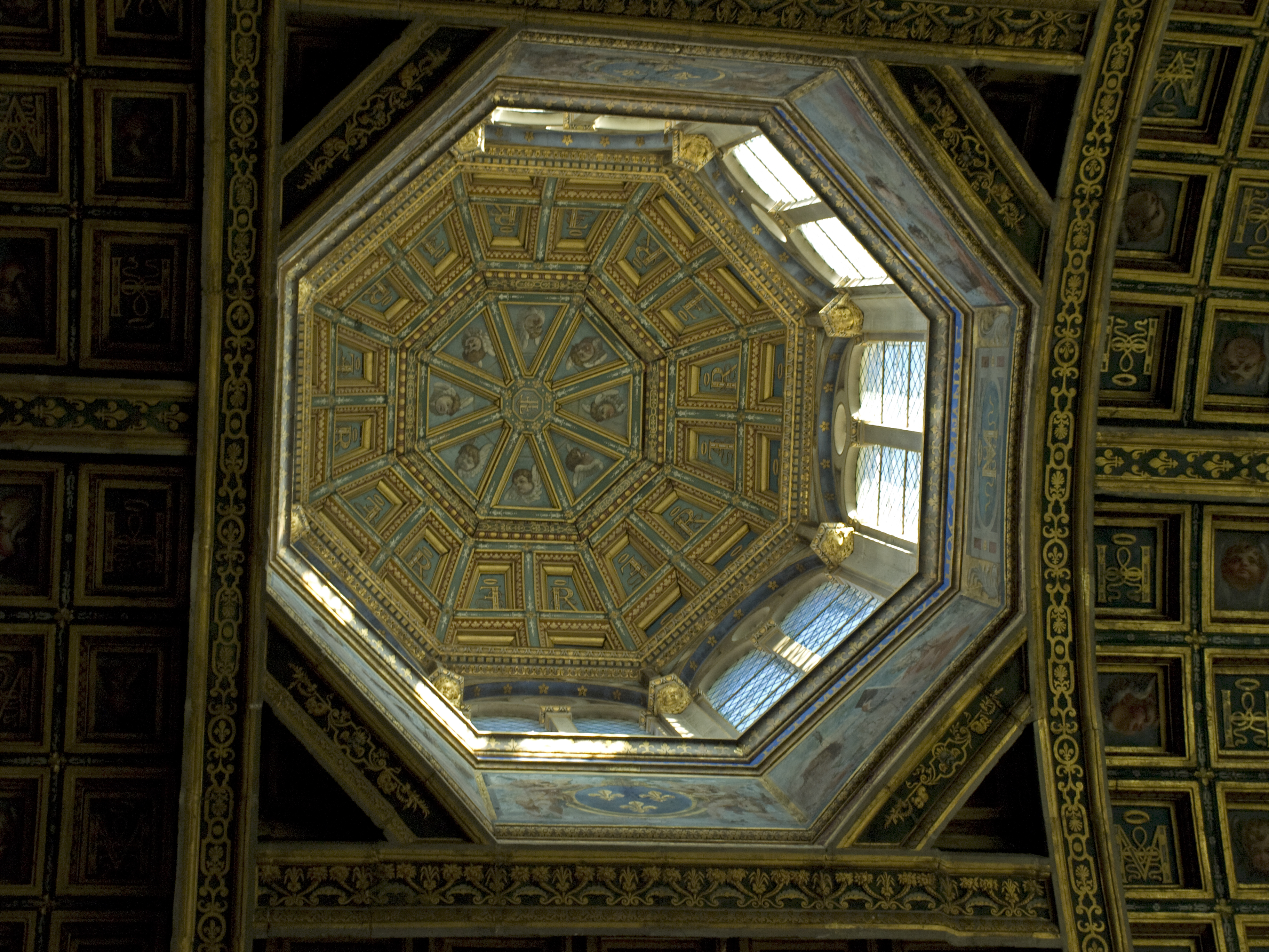 Chapelle Saint-Saturnin, Palace of Fontainebleau